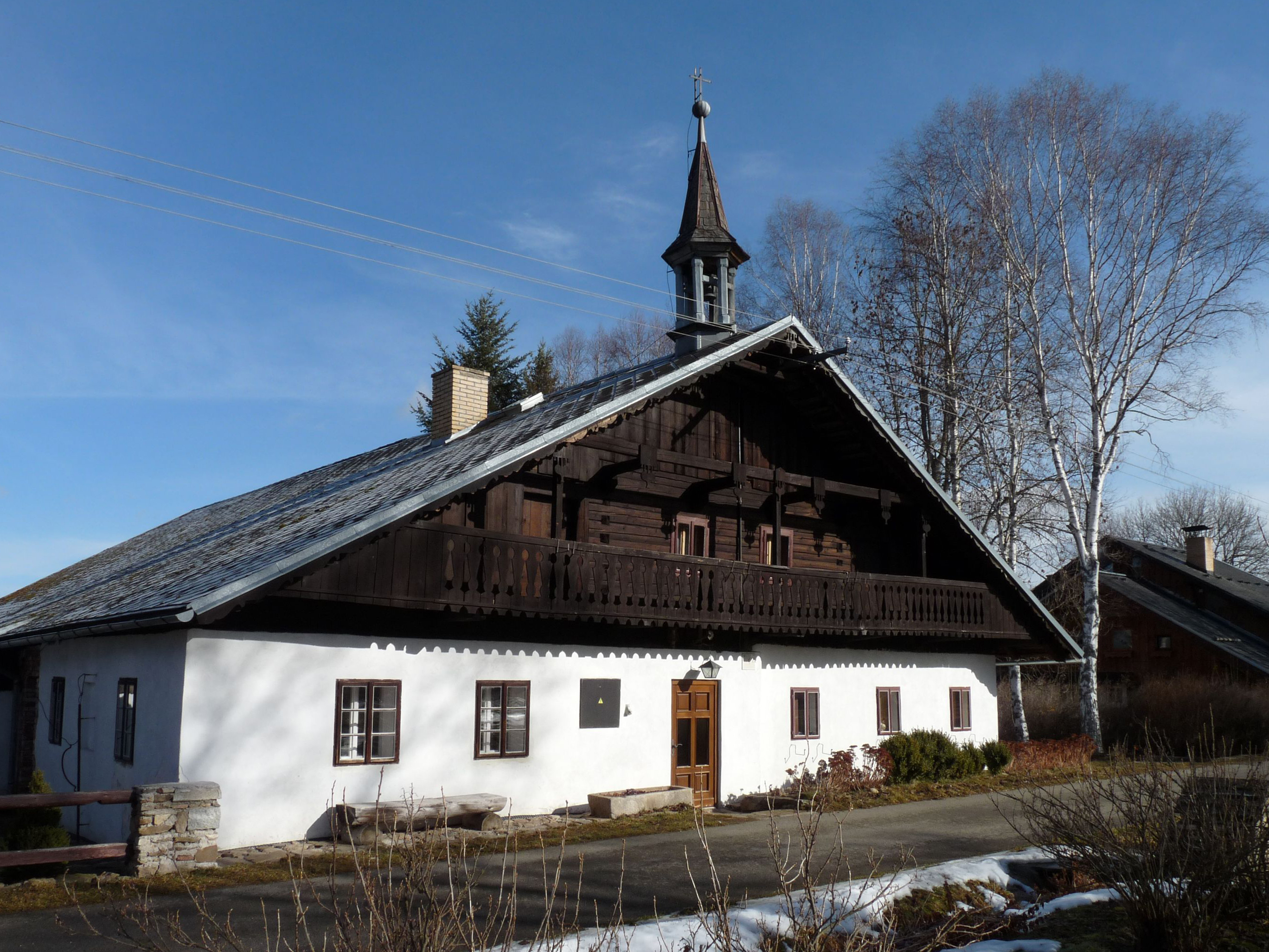 House No 10 in the village of Dobrá, Bohemian Forest, part of the municipality of Stožec, Prachatice District, Czech Republic.